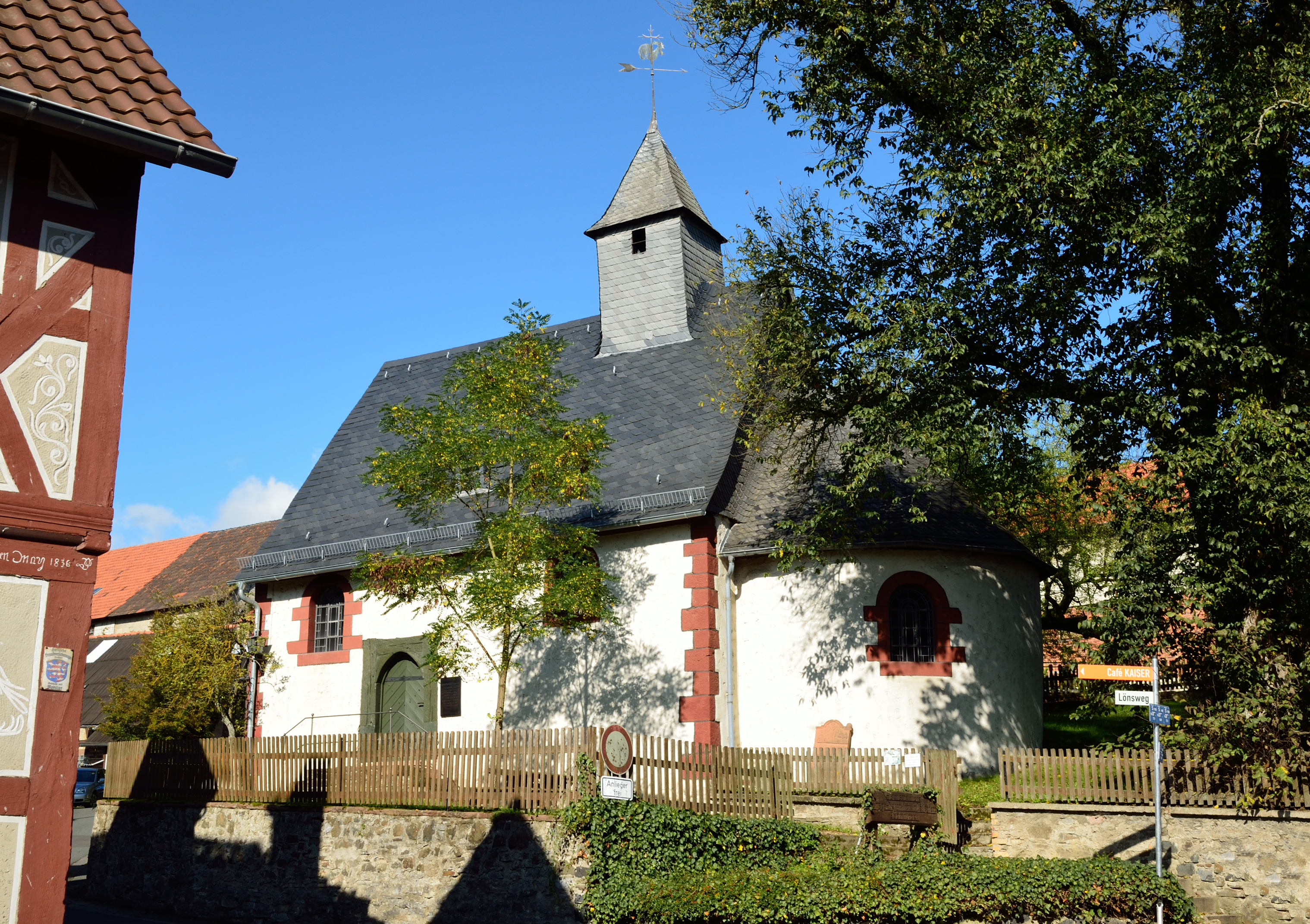 Historic protestant church Altenvers, Lohra, the only church with horseshoe-shaped apse in Germany, from the 9th century.